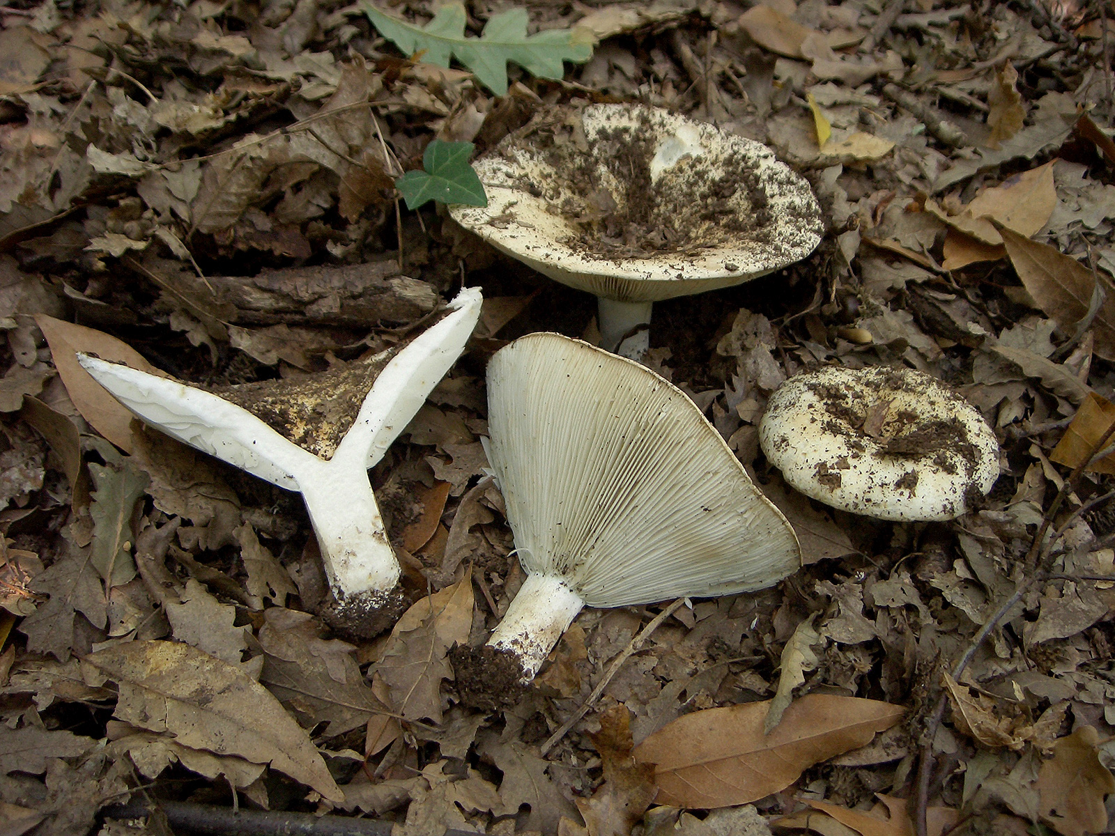 Body fruits of Russula chloroides - Ponsacco (PI) - 10/2006